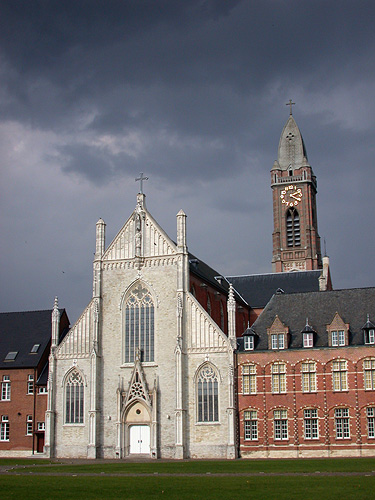 Tongerlo Abbey church.